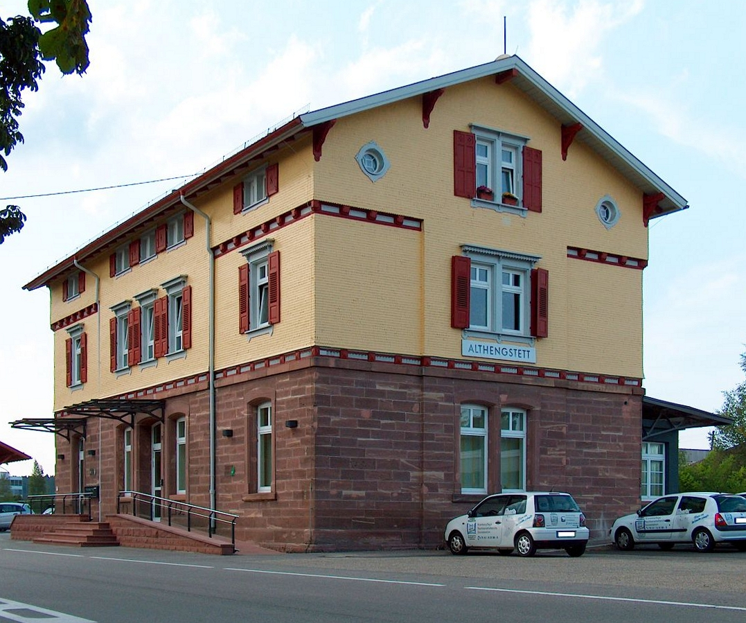 Althengstett train station.